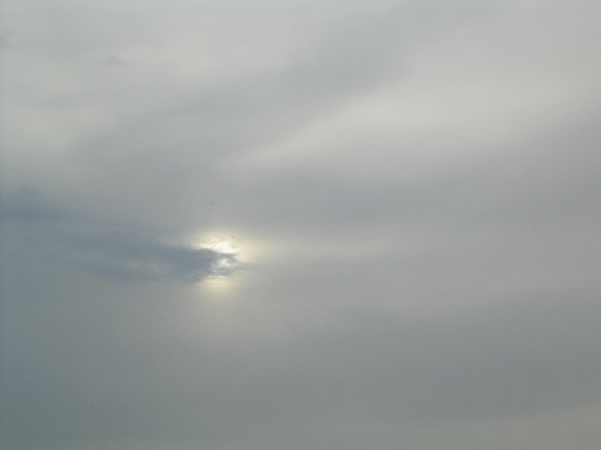 Sun shining through Altostratus ... yeah, not Altocumulus, sorry.